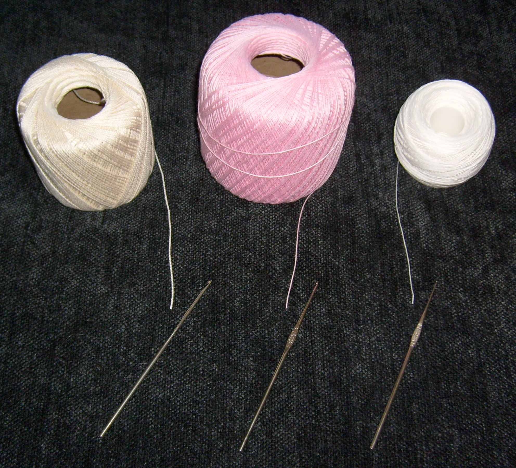 Crochet threads of different weights (diameters) displayed with hooks of different sizes. As the thread diameter decreases, smaller tools and more stitches become necessary to produce the same size of crochet lace. Finer threads allow for thinner lace and greater detail.